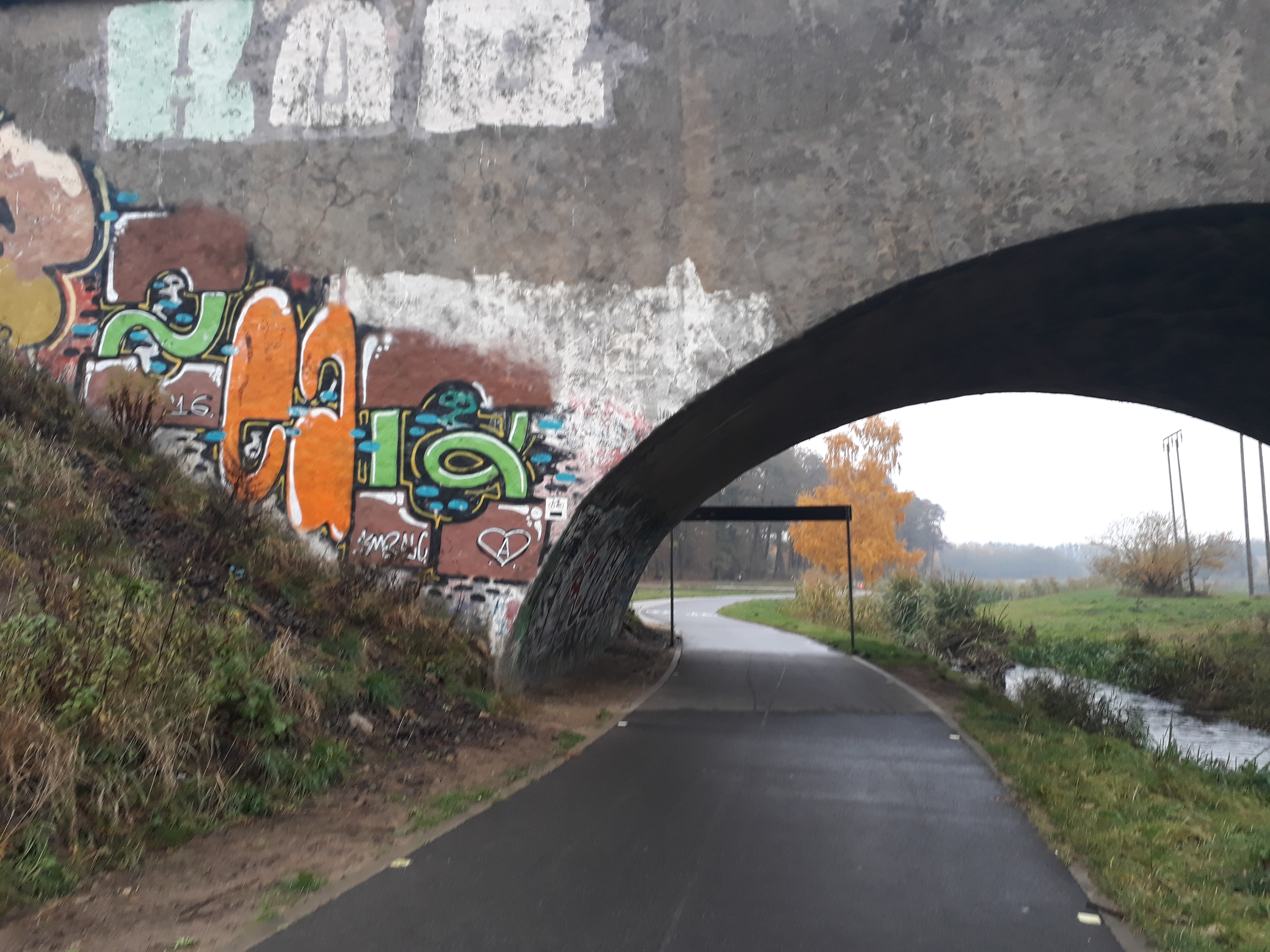 A picture of graffiti sprayed under a railway bridge in Poland